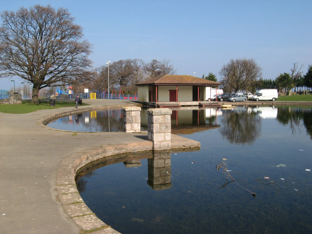 Boating lake It is some years since the boating lake in Eirias Park has been used for its proper purpose. It is a pretty pool, nonetheless and the fish are less disturbed than of old!